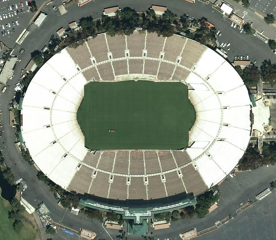 Rose Bowl, Pasadena California